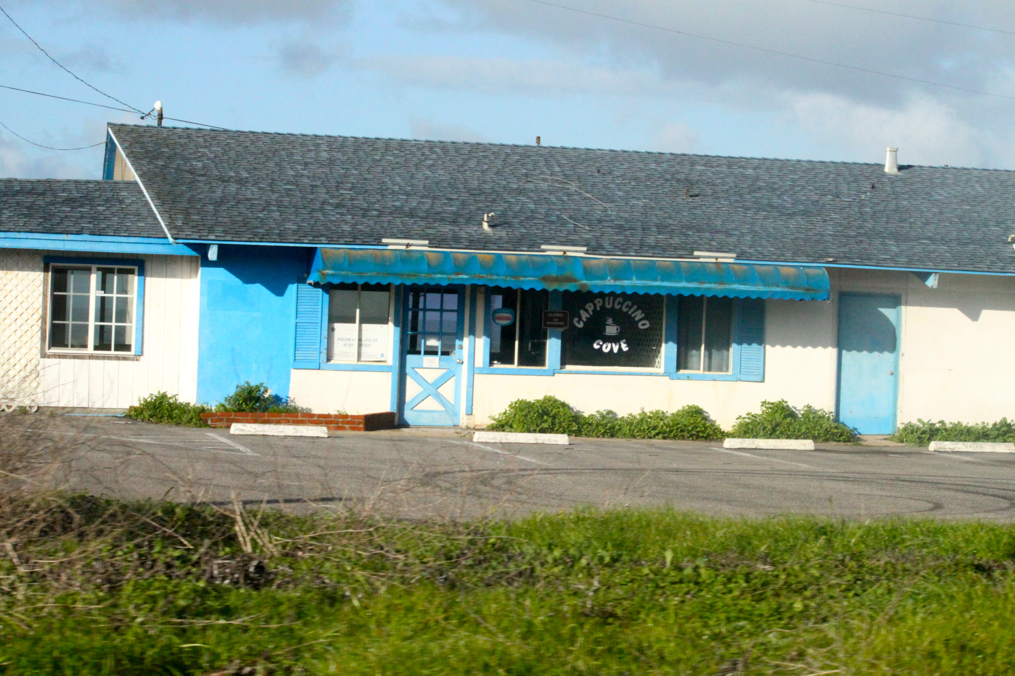 This is part of a set called "Poor Piedras Blancas Pelicans", that documents 16 dead pelicans found in early February 2010, north of San Simeon in California. Some of these birds may have died due to electrocution, and others due to vehicle impact. Visit the web site of Pacific Wildlife Care to see how you can donate to help save the dozens of sick and injured pelicans that arrive in our center every year.